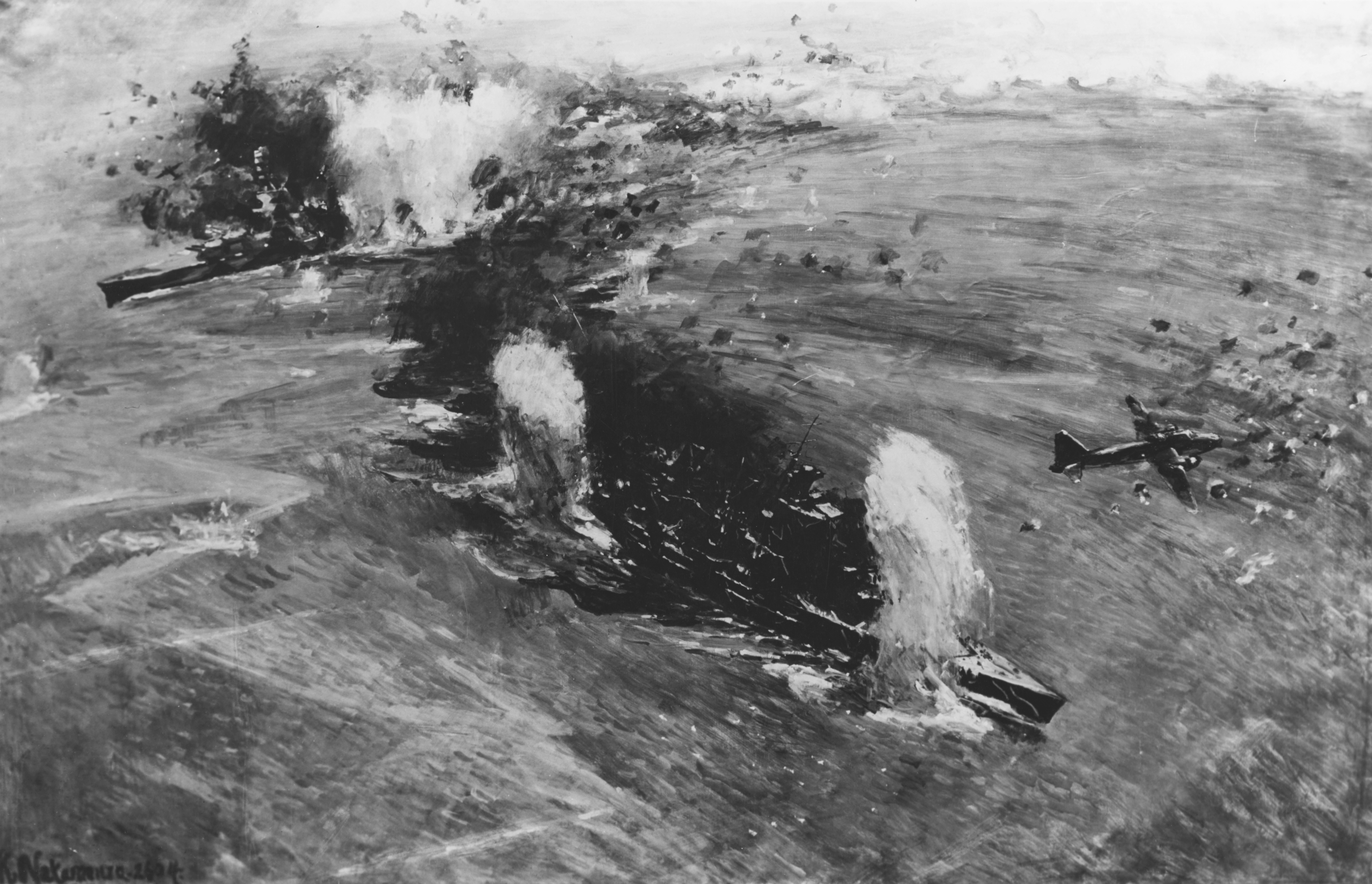 "Sea Battle off Malaya": Japanese war art painting by Nakamura Kanichi, 1942, depicting Japanese Navy aircraft making successful torpedo attacks on the British battleship HMS Prince of Wales (center) and battlecruiser HMS Repulse (left) on 10 December 1941.